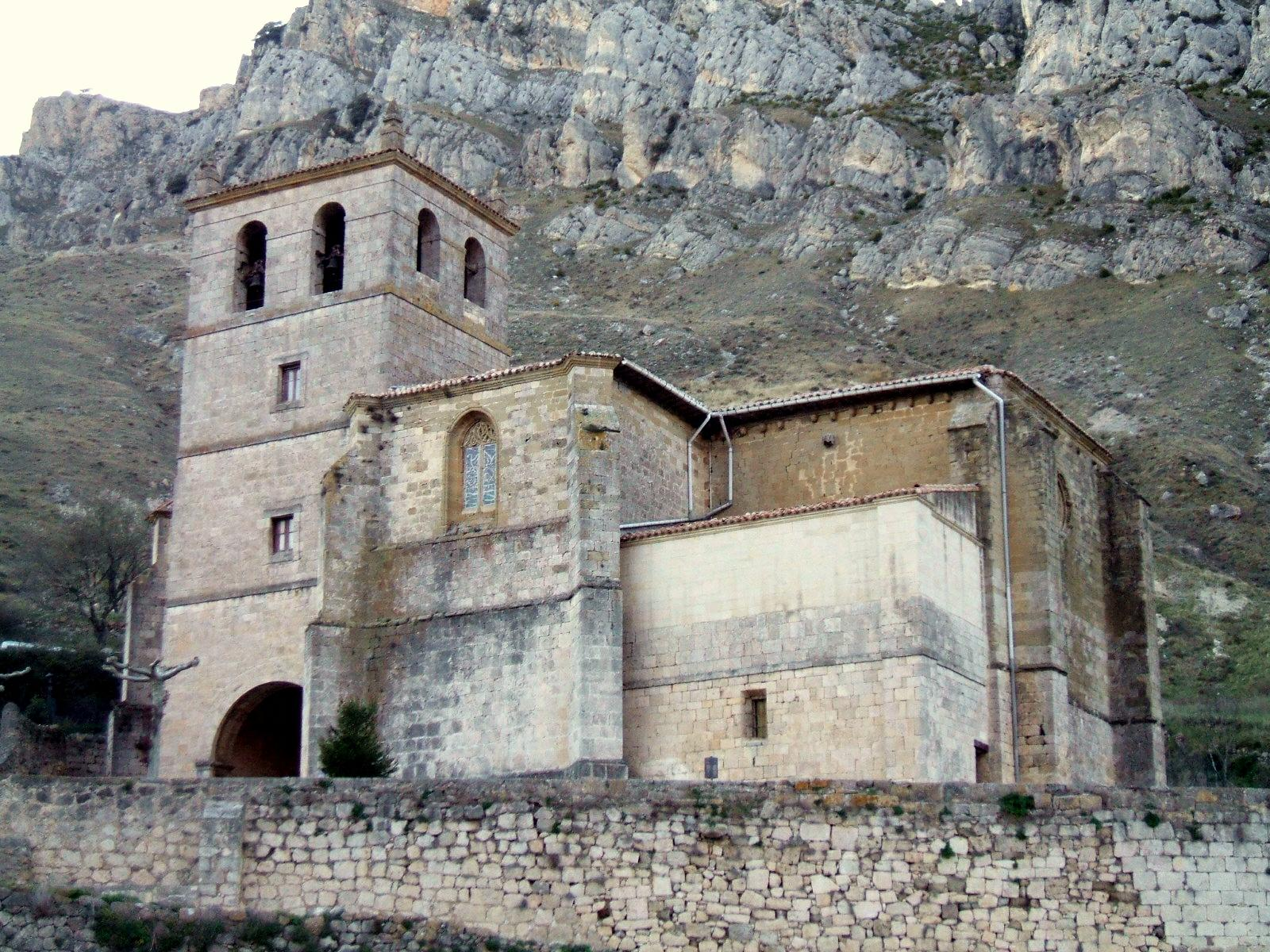 Iglesia de Santiago, en Pancorbo (Burgos, Castilla y León, España)